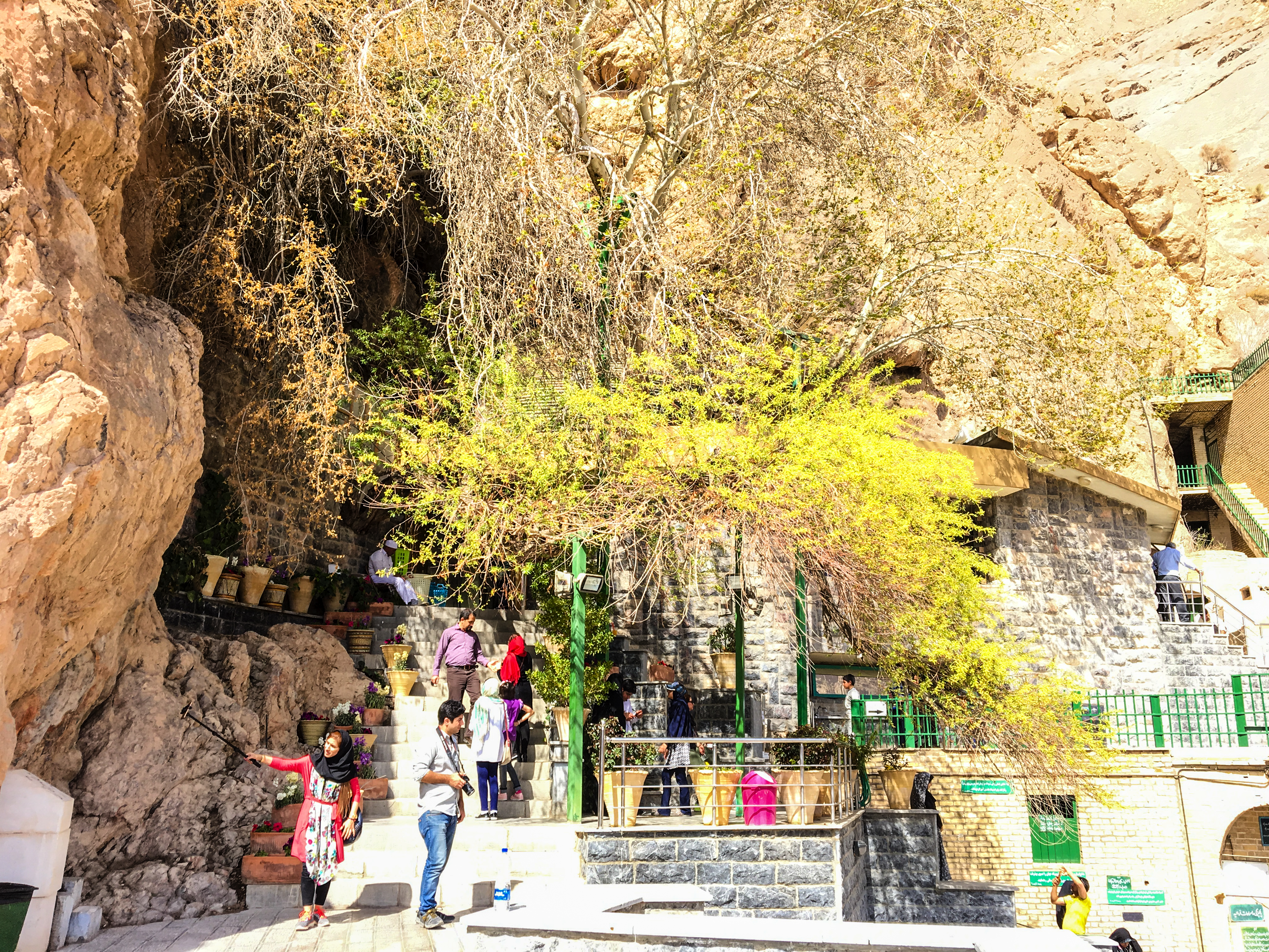 Chak Chak (Persian: چك چك – "Drip-Drip", also Romanized as Chek Chek; also known as Chāhak-e Ardakān and Pir-e Sabz (Persian: پیر سبز) "The Green Pir")[1] is a village in Rabatat Rural District, Kharanaq District, Ardakan County,Iran. At the 2006 census, its existence was noted, but its population was not reported.